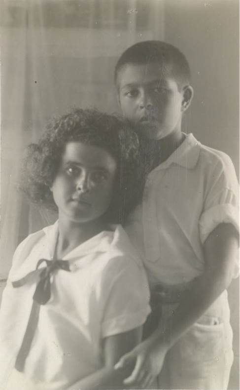 Shlomo Brener with his sister Bilha, in the "Kfar Yeladim"